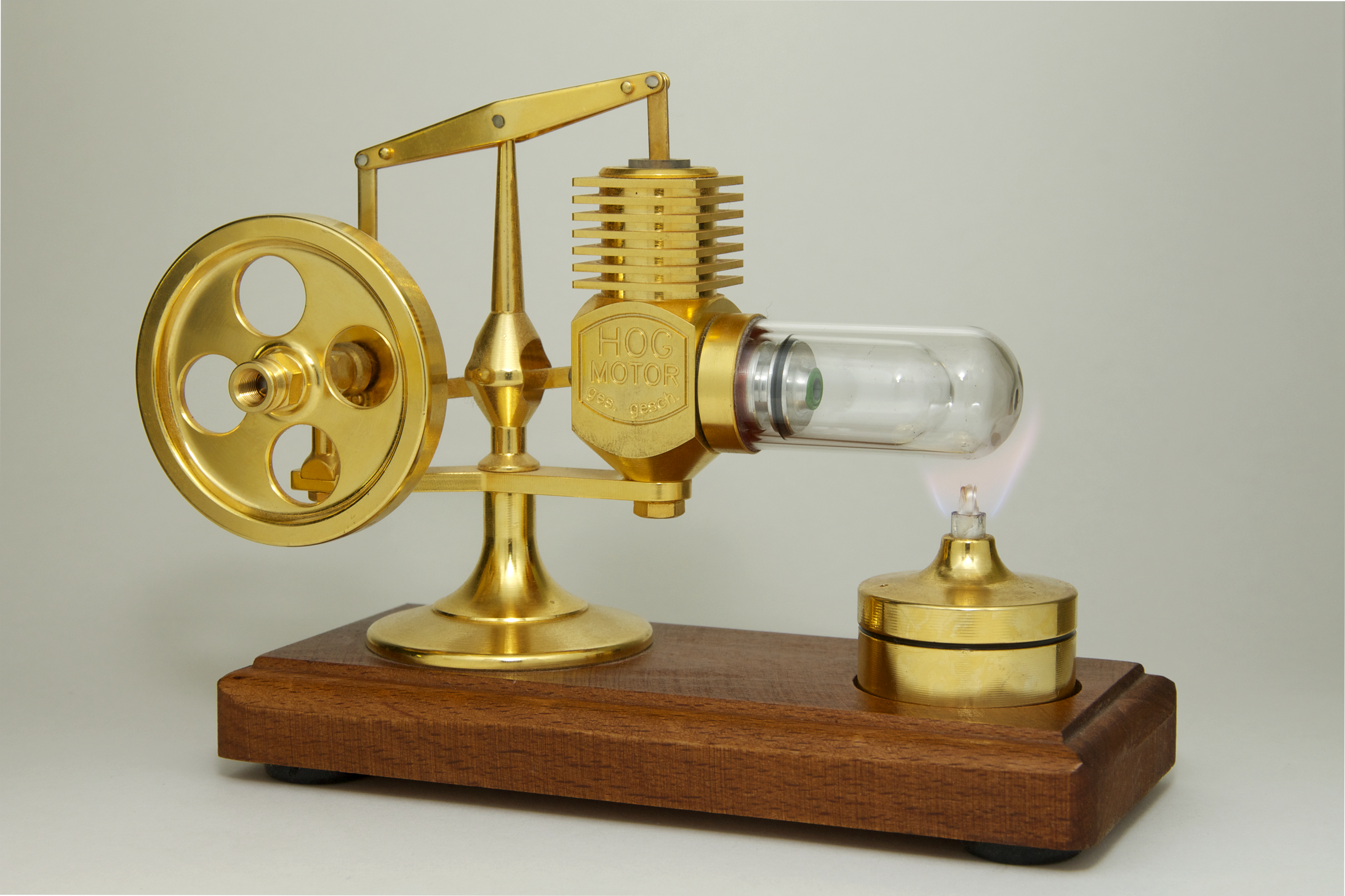 A Stirling engine. Please note: The engine doesn't run. The flame is burning only for demonstration. A running engine would have caused a wiggly picture, due to the long exposure time to expose the flame.